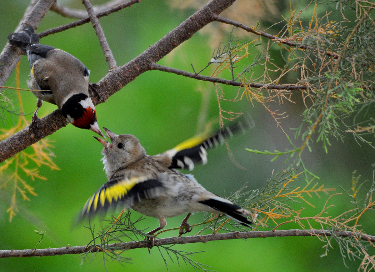 Goldfinch (Carduelis carduelis)